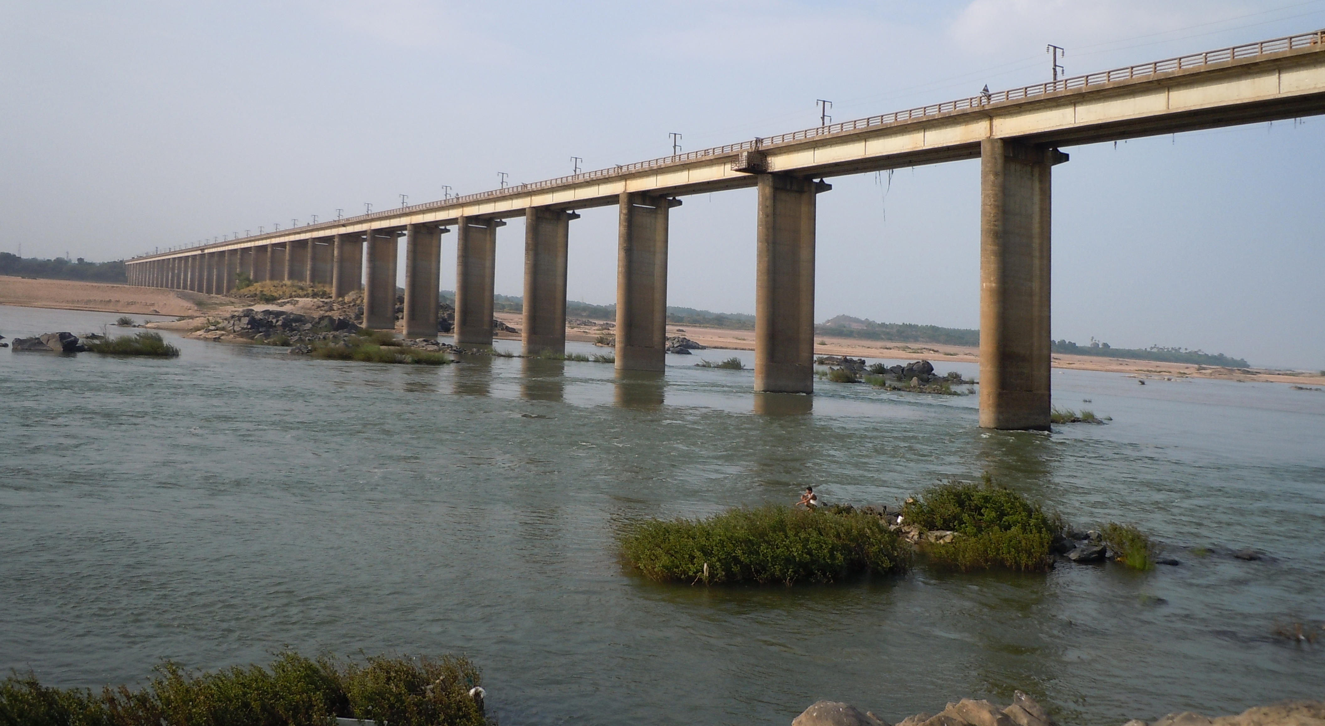 Road Bridge over Godavari River at Bhadrachalam, Khammam district